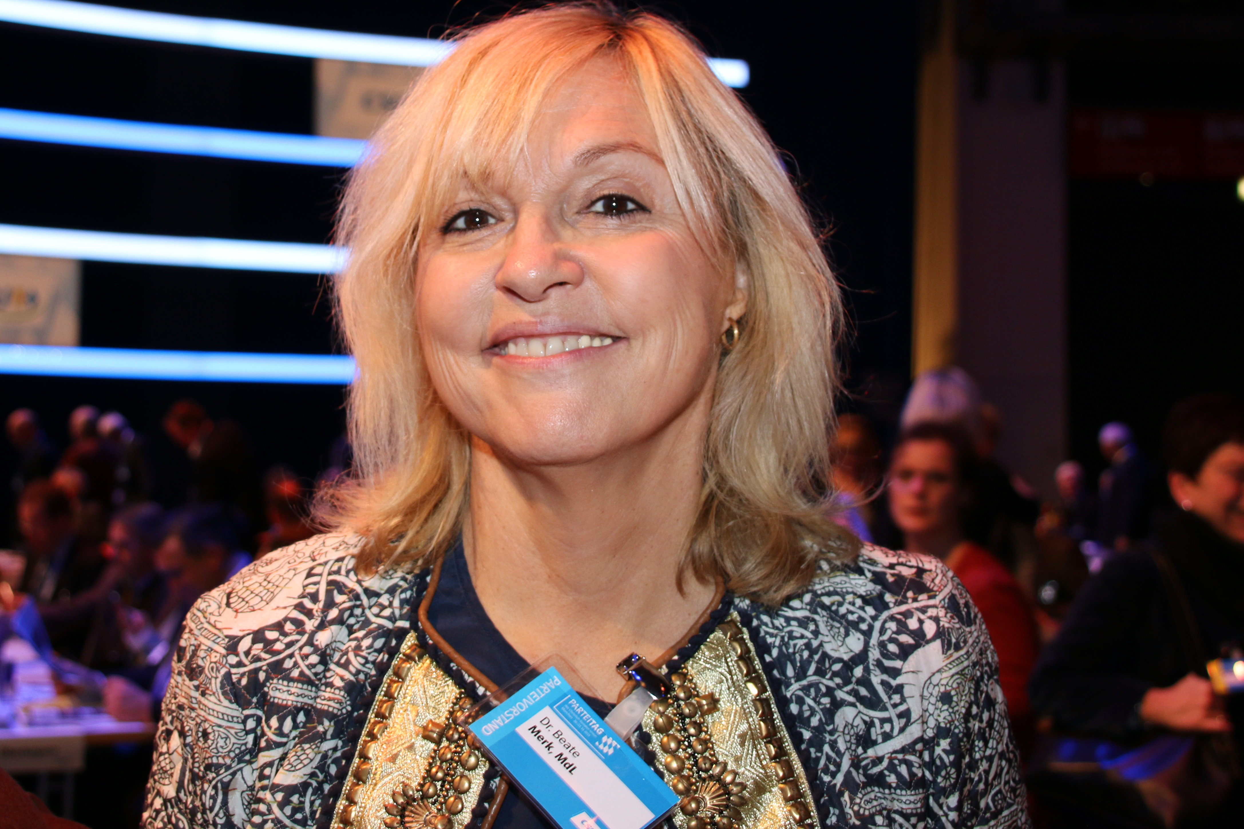 Beate Merke, member of Bavarian Parliament (CSU)